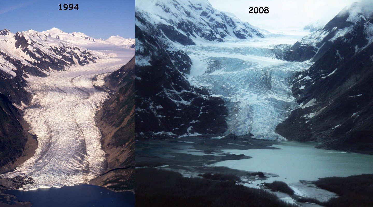 Davidson Glacier comparing retreat and thinning over 14 years